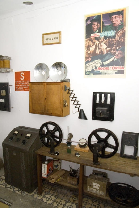 Colección Museográfica De Antiguos Proyectores Cinematográficos en San pedro de Pinar, Murcia. Está compuesta por material cinematográfico recuperado y una reproducción de una cabina de proyección de la década del "50.